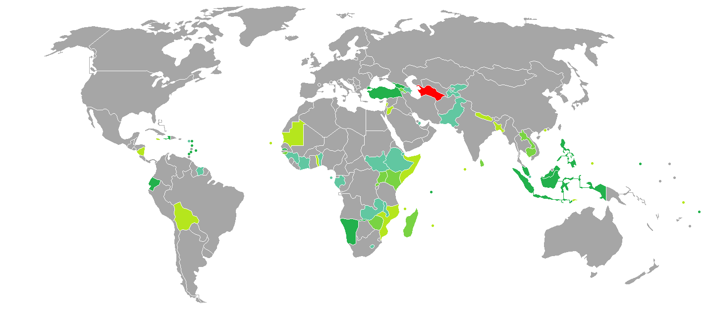 Visa requirements for Turkmen citizens Turkmenistan Visa free access Visa on arrival eVisa Visa available both on arrival or online Visa required